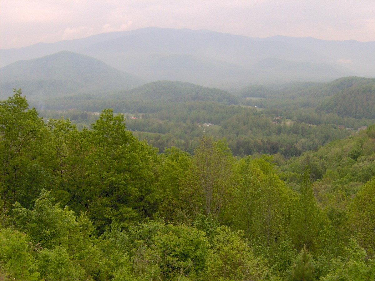 The Cosby valley, looking northwest from Foothills Parkway (Green Mountain). The Caton's Grove area is below on the left.